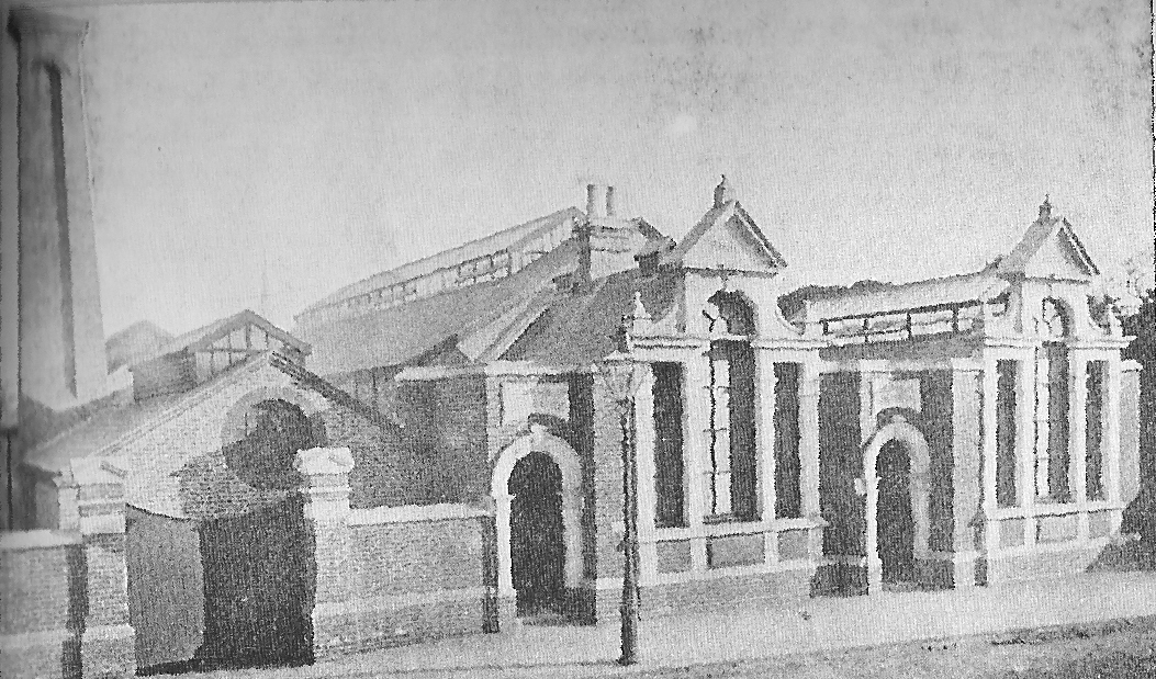 Brentford Public Baths